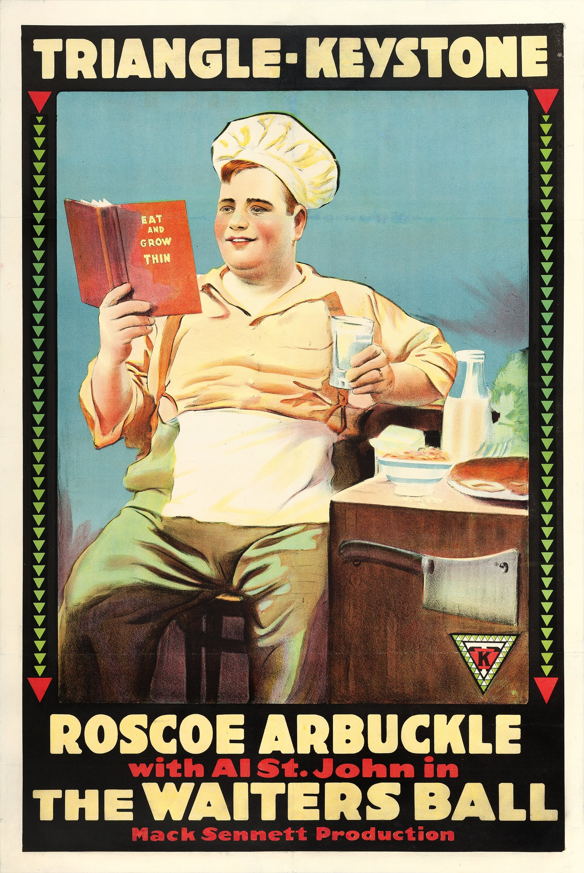 Poster for The Waiters' Ball (Triangle-Keystone, 1916). One Sheet (28 X 41.5).